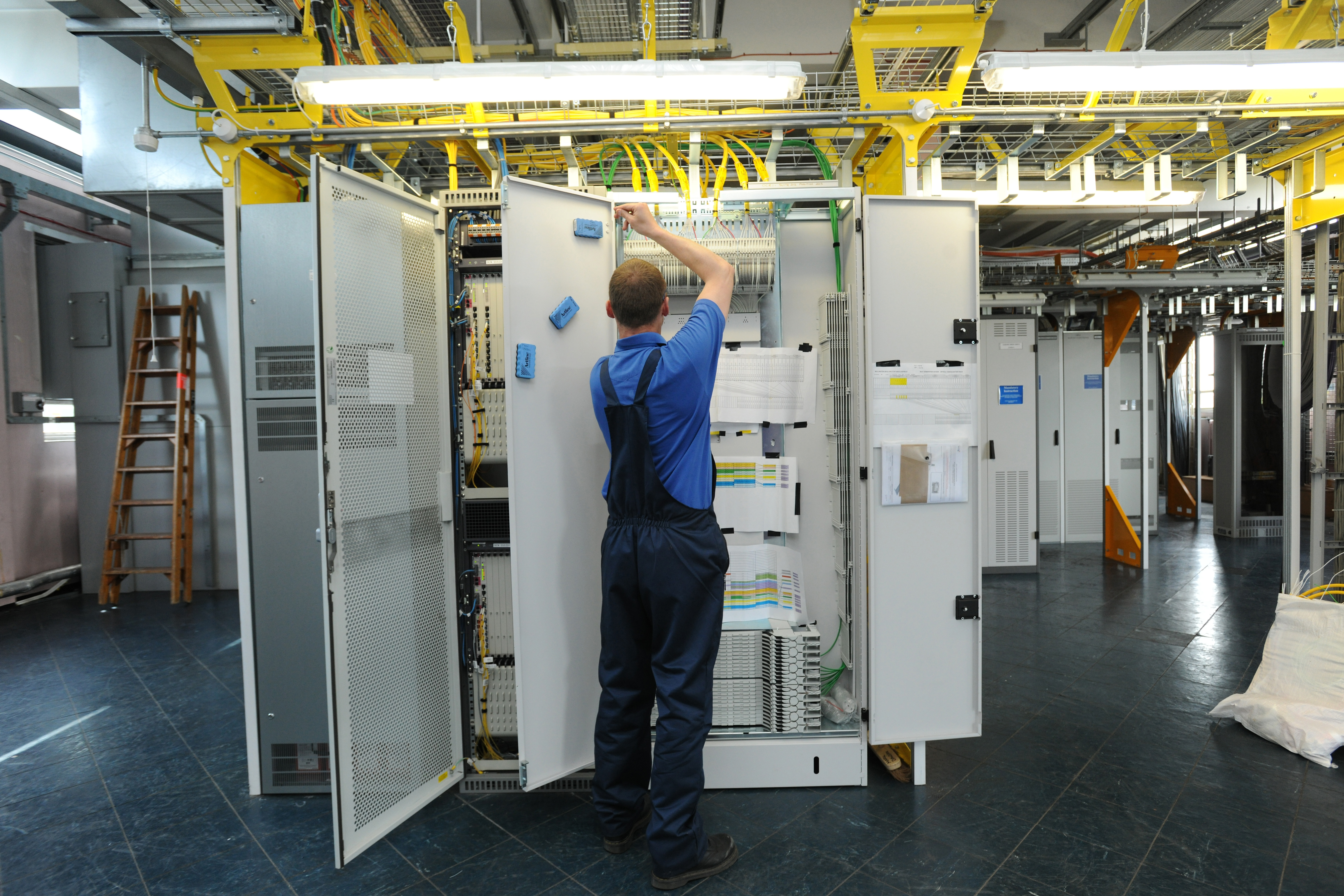 Picture shows: Openreach engineer Mark Dawson working on in the exchange on an OLT (Optical Consolidation Rack) equipment that brings together thousands of fibre optic cables and helps connect them up to BT's main arterial network Photo: Johnnie Pakington